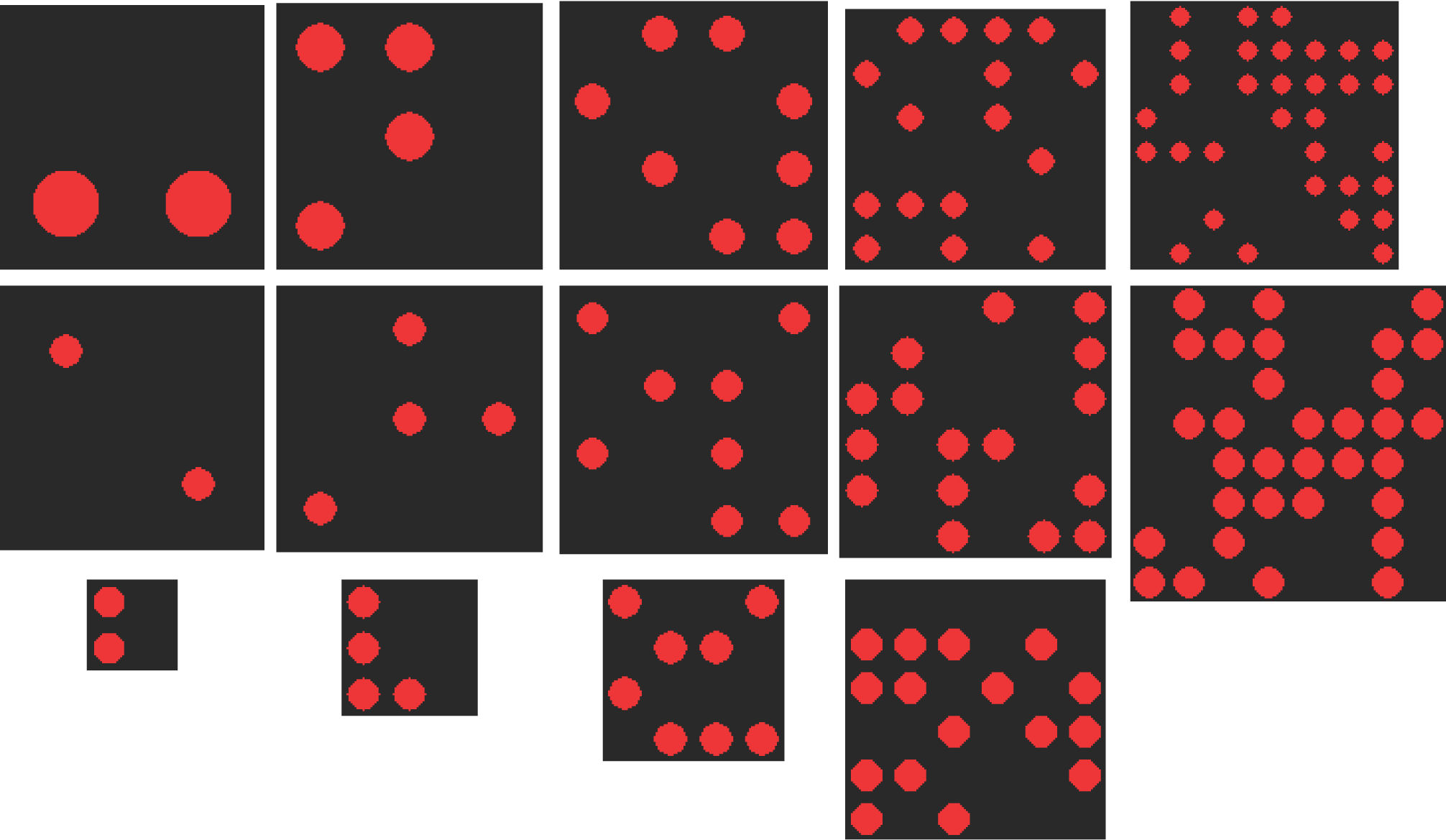 Examples of dot arrays for the numerosities tested in Macaque: 2, 4, 8, 16, and 32. Stimuli with the same average total number of pixels are in the first row; same radius and overall extent in the second row; and same radius and density in the third row. Published in: Roitman JD, Brannon EM, Platt ML (2007): „Monotonic Coding of Numerosity in Macaque Lateral Intraparietal Area“. PLoS Biol5(8): e208.